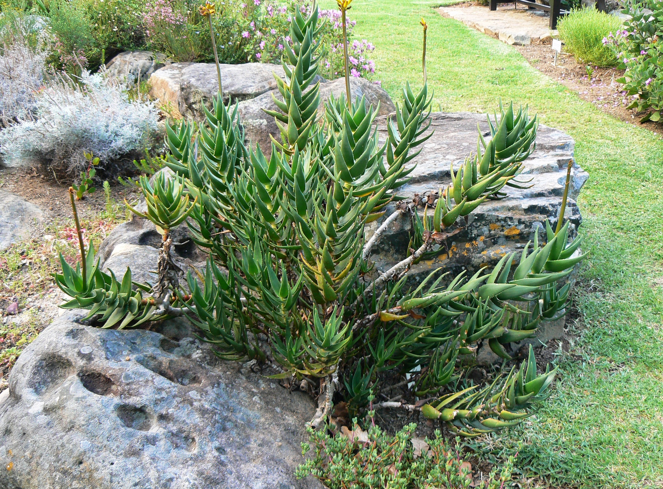 Aloe commixta growing on the slopes of Table Mountain. Cape Town.